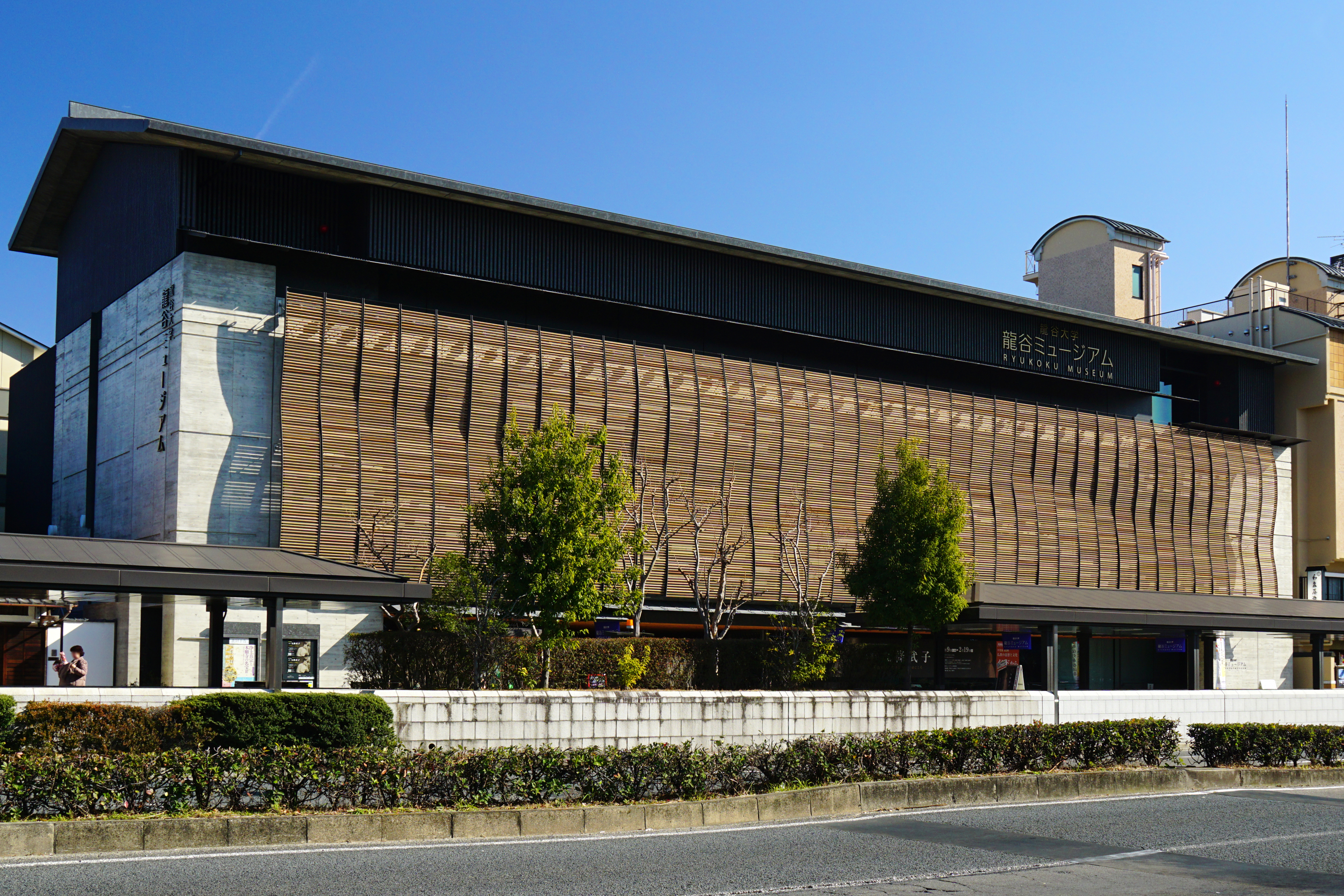 The Ryukoku_Museum in Kyoto, Kyoto prefecture, Japan